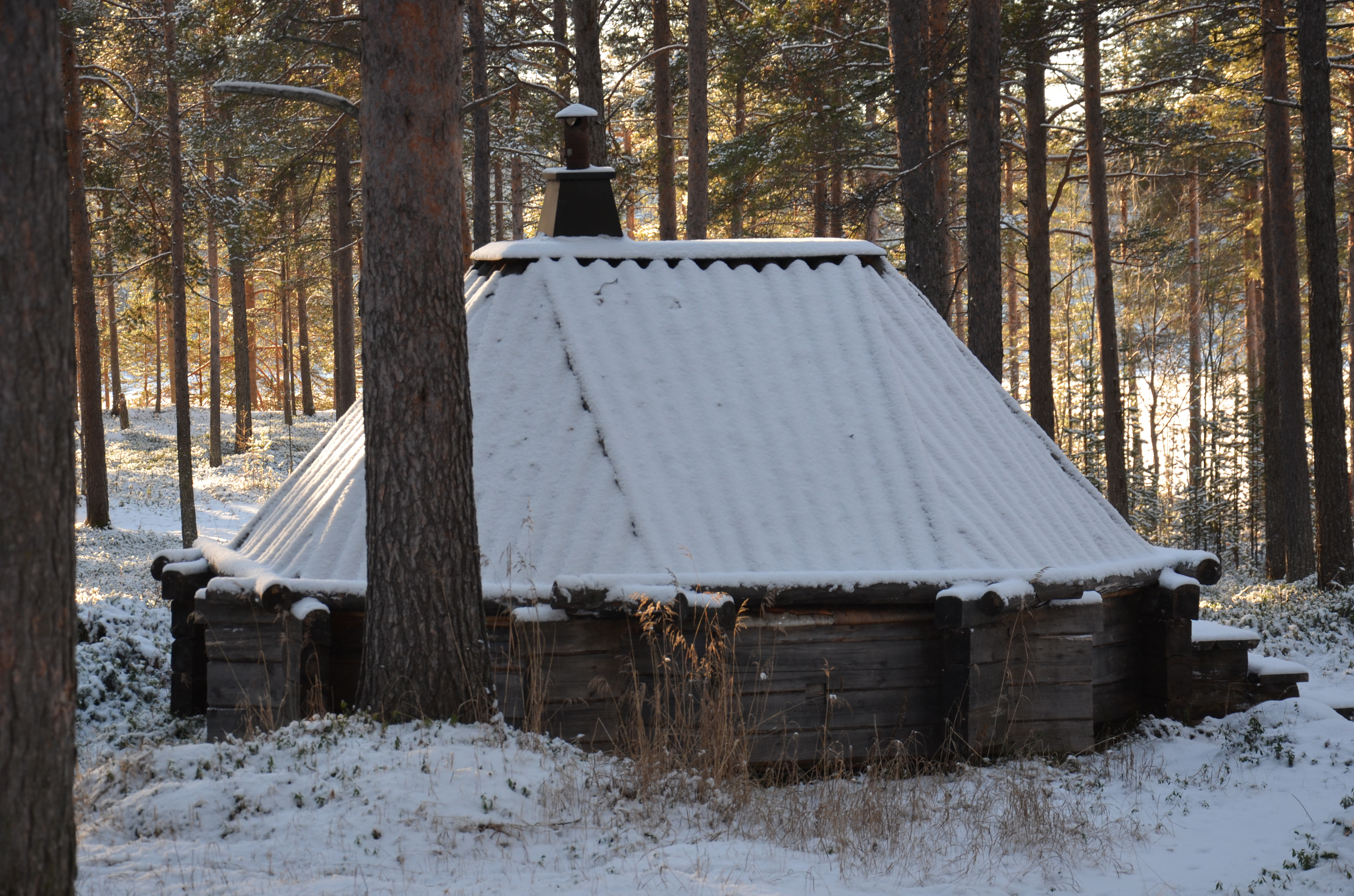 Kåta vid gamla marknadsplasten, nära hembygdsgården i Jokkmokk. I bakgrunden Talvatissjön